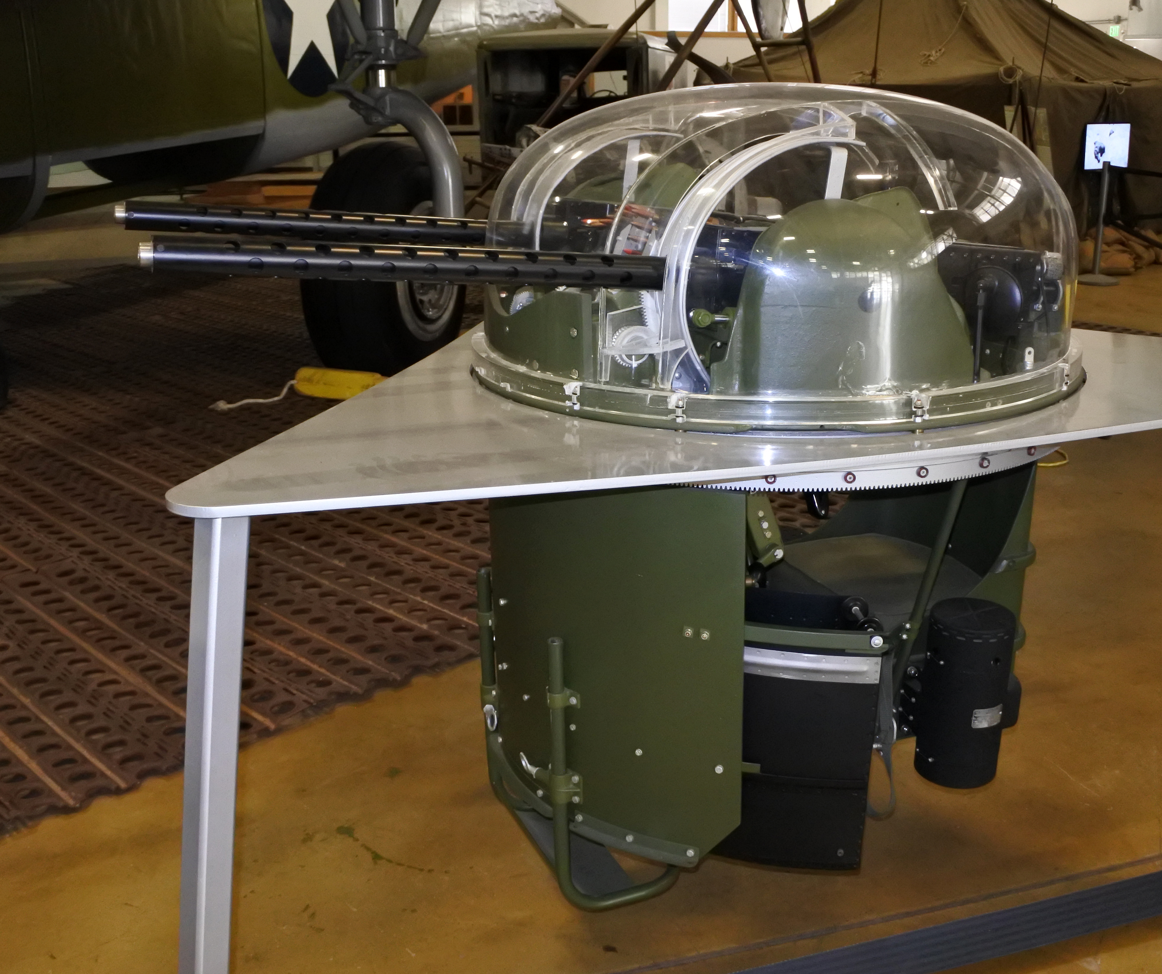 Turret assembly of B24D Liberator bomber, Hill Aerospace Museum.